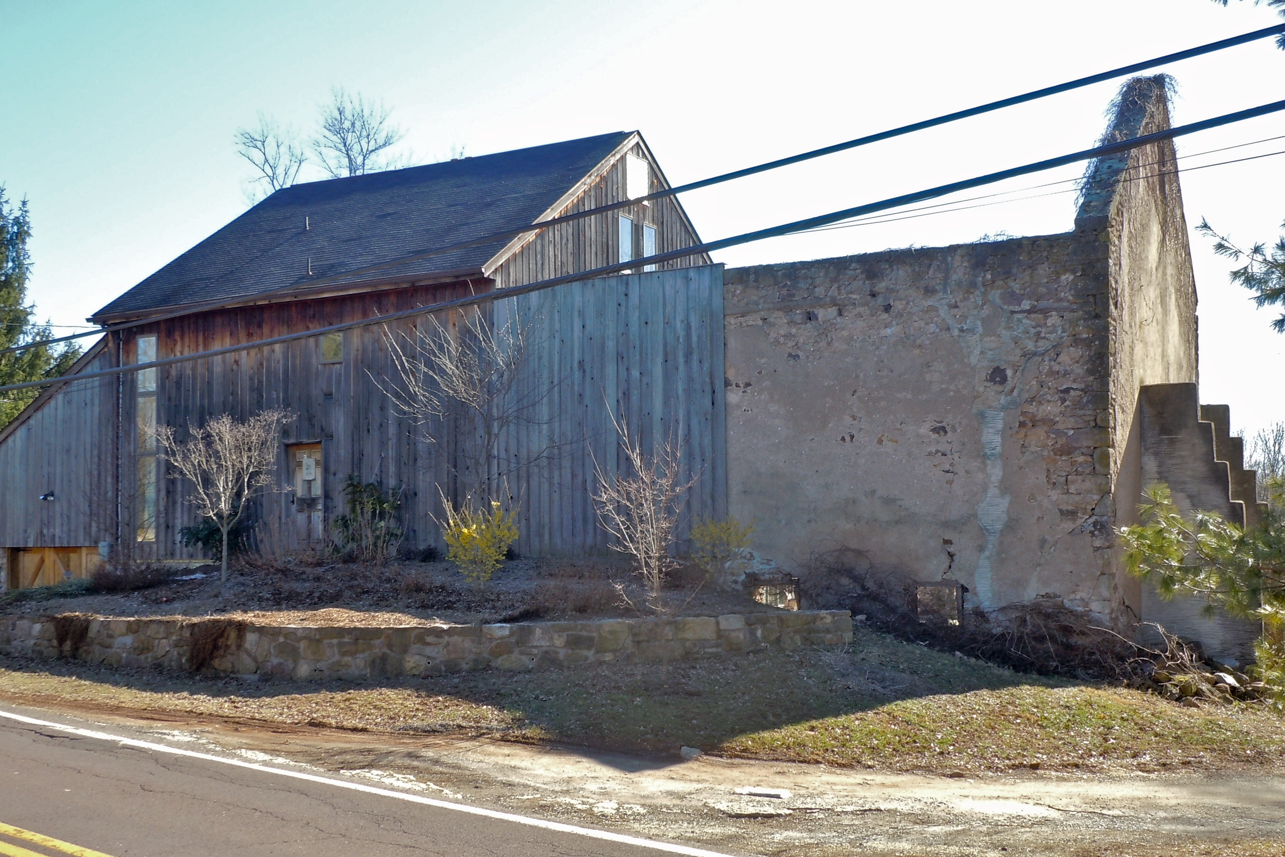 Prizer's Mill Complex on the NRHP since September 6, 1978. Located west of Phoenixville on Seven Stars Road in East Pikeland Township, Chester county, Pennsylvania. Kennedy Covered Bridge, also on the NRHP is just downhill of here. There are several other buildings in the complex.